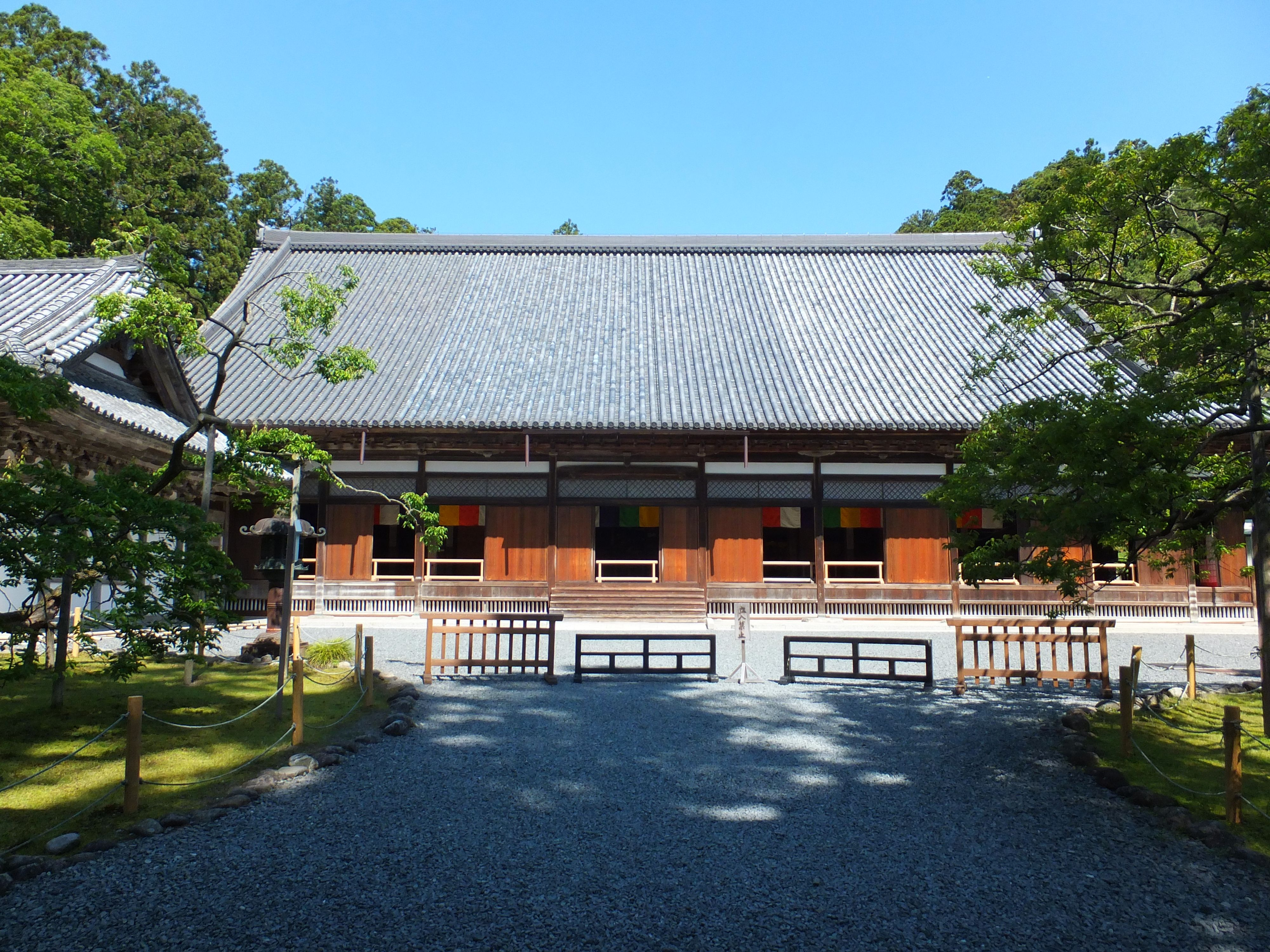 Main hall of Zuigan-ji temple in Matsushima, Miyagi Prefecture